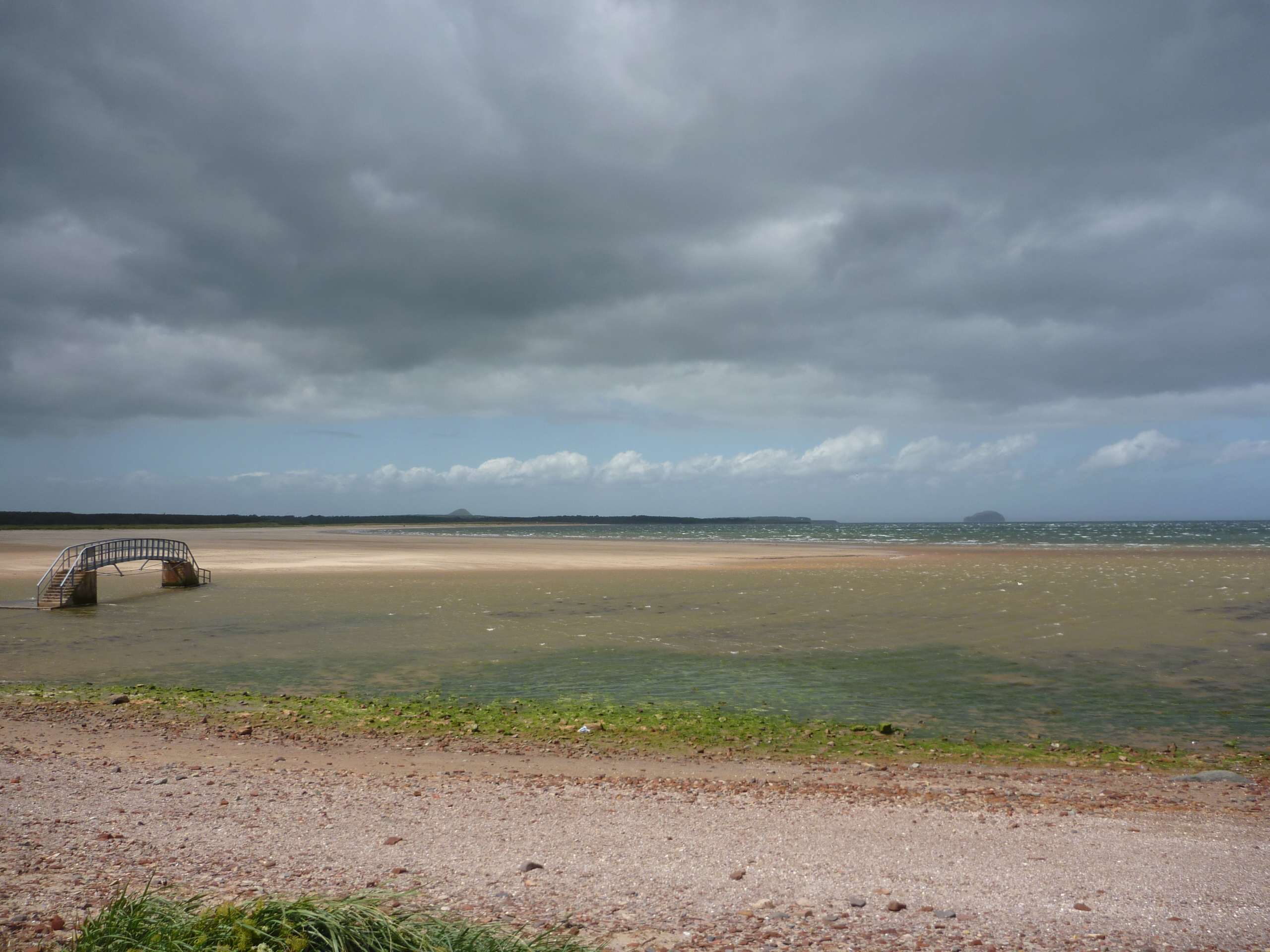 Coastal East Lothian : A Windy Day at Belhaven